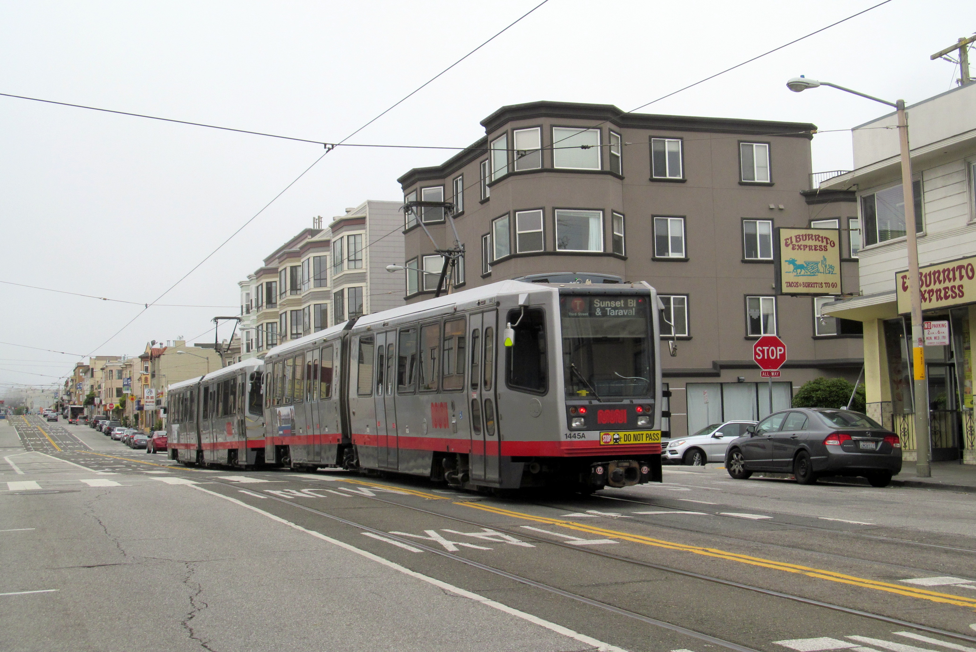 Inbound L Taraval train crossing 26th Avenue in June 2017